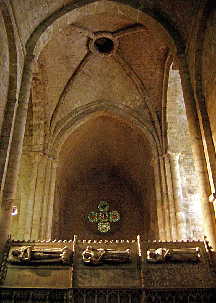 Tombs of royalty inside the Monastery of Santa Maria de Poblet in Conca de Barberà, Catalonia, Spain